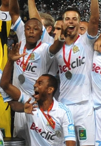 André Ayew, César Azpilicueta and Édouard Cissé winning 2011 Trophée des Champions with Olympique de Marseille